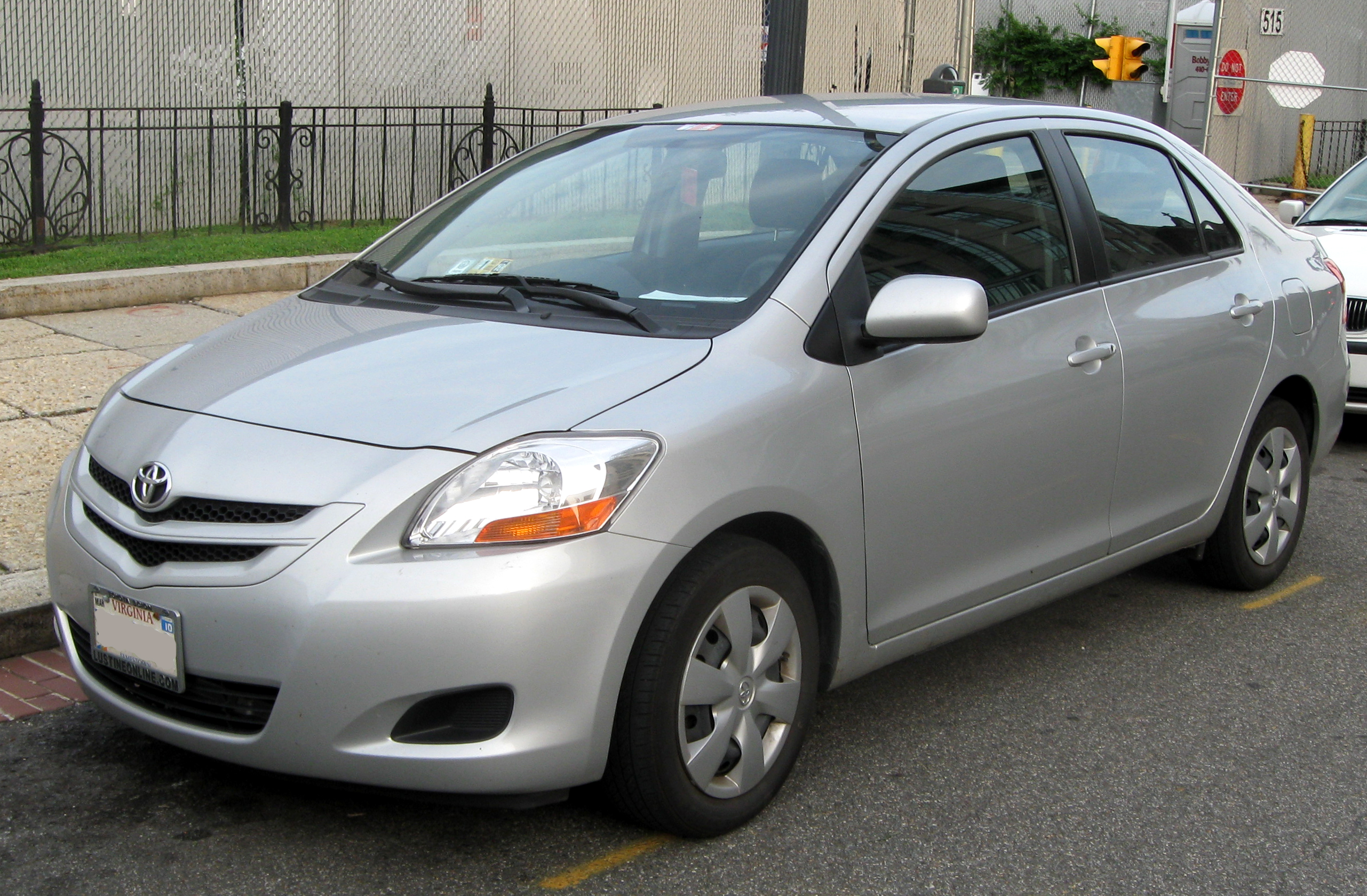 2006-2008 Toyota Yaris photographed in Washington, D.C., USA.